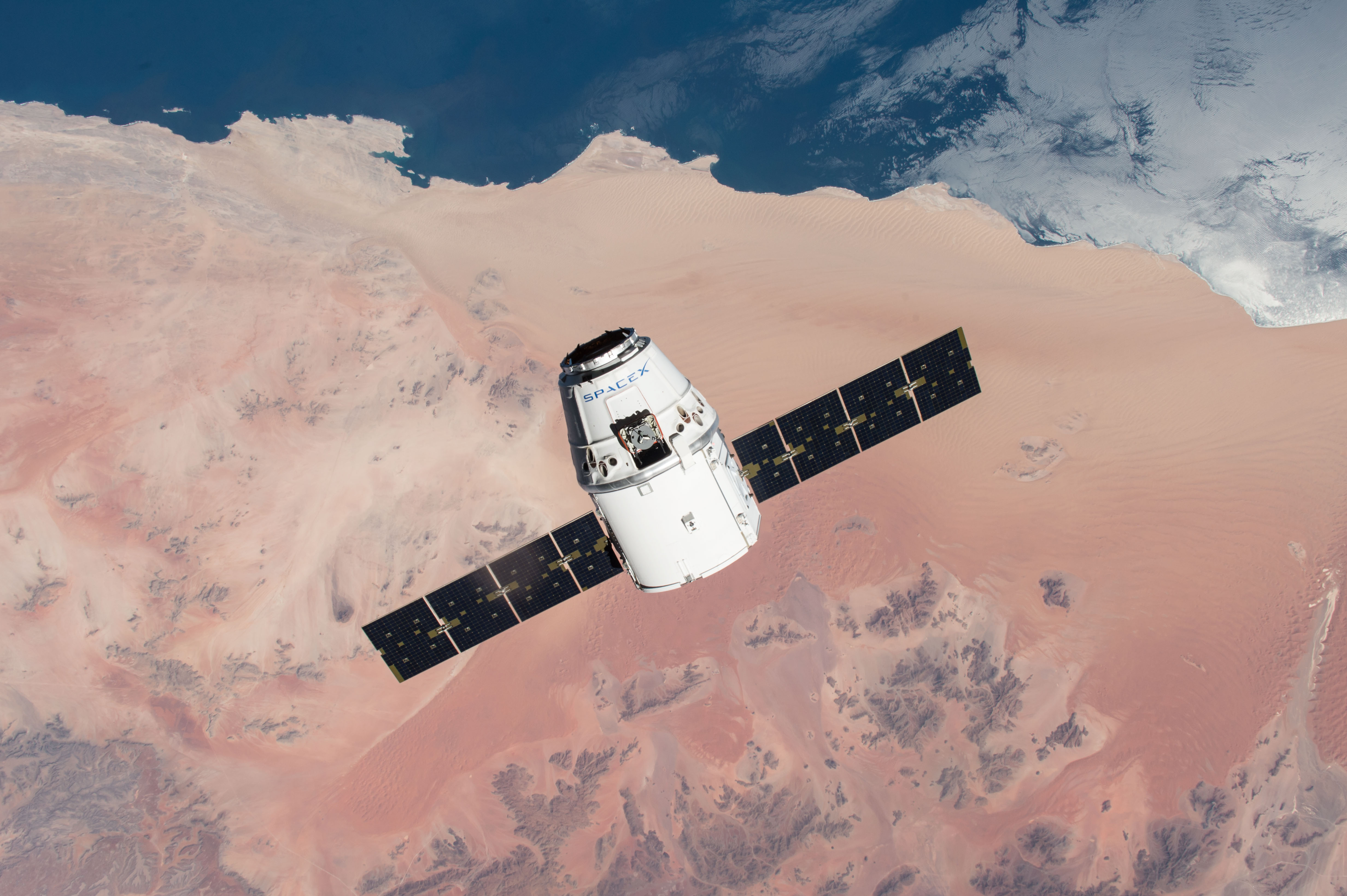 The SpaceX Dragon cargo spaceship begins the final approach to the International Space Station. The spacecraft is delivering about 7,000 pounds of science and research investigations, including the Bigelow Expandable Activity Module, known as BEAM. Dragon's arrival marked the first time two commercial cargo vehicles have been docked simultaneously at the space station. Orbital ATK's Cygnus spacecraft arrived to the station just over two weeks ago. With the arrival of Dragon, the space station ties the record for most vehicles on station at one time – six.